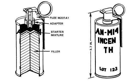 Drawing of the AN/M14 TH3 incendiary grenade